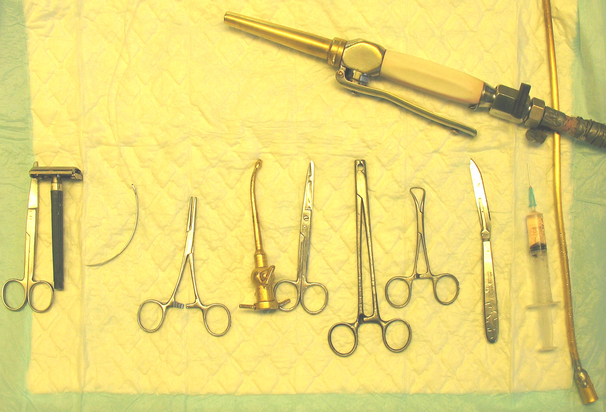 Utensils_used_for_embalming